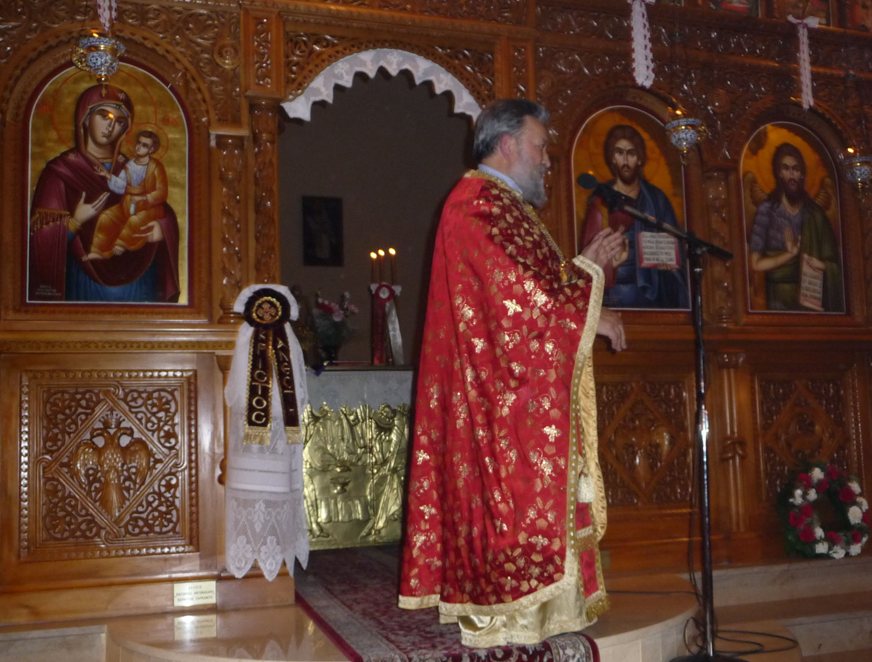 Orthodox Easter in Ludwigshafen, Germany